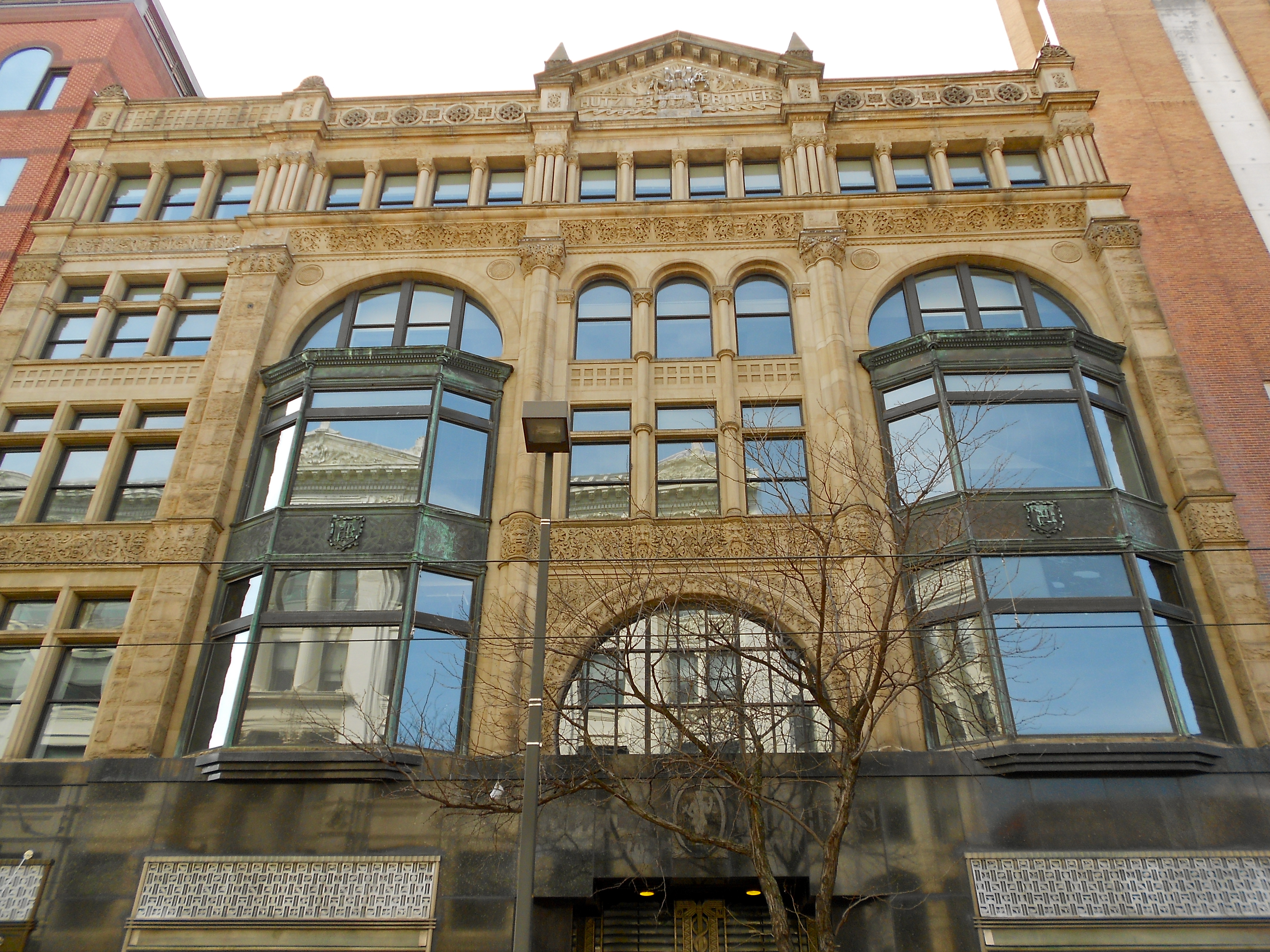 Hutzler Brothers Palace Building on the NRHP since June 7, 1984. At 210-218 N. Howard St. in central Baltimore, Maryland.